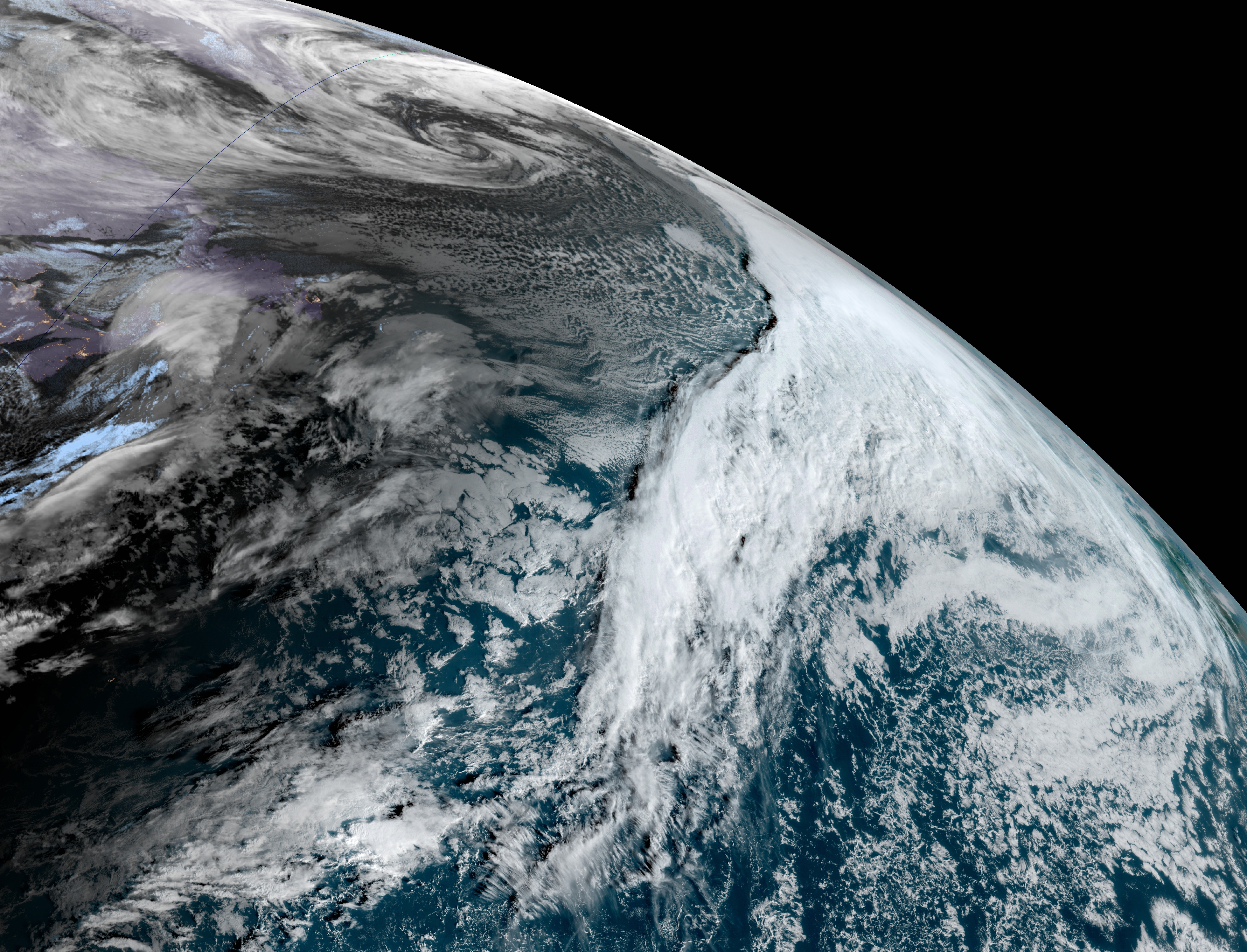 Storm Atiyah, part of the 2019-20 European windstorm season, above the Atlantic Ocean, with the core just south of Greenland. Note: on the original, fulldisk image (archived), a green-blue curve of pixels is present, spanning east of Greenland to about half-way the Pacific. This was not added by the editing software used.